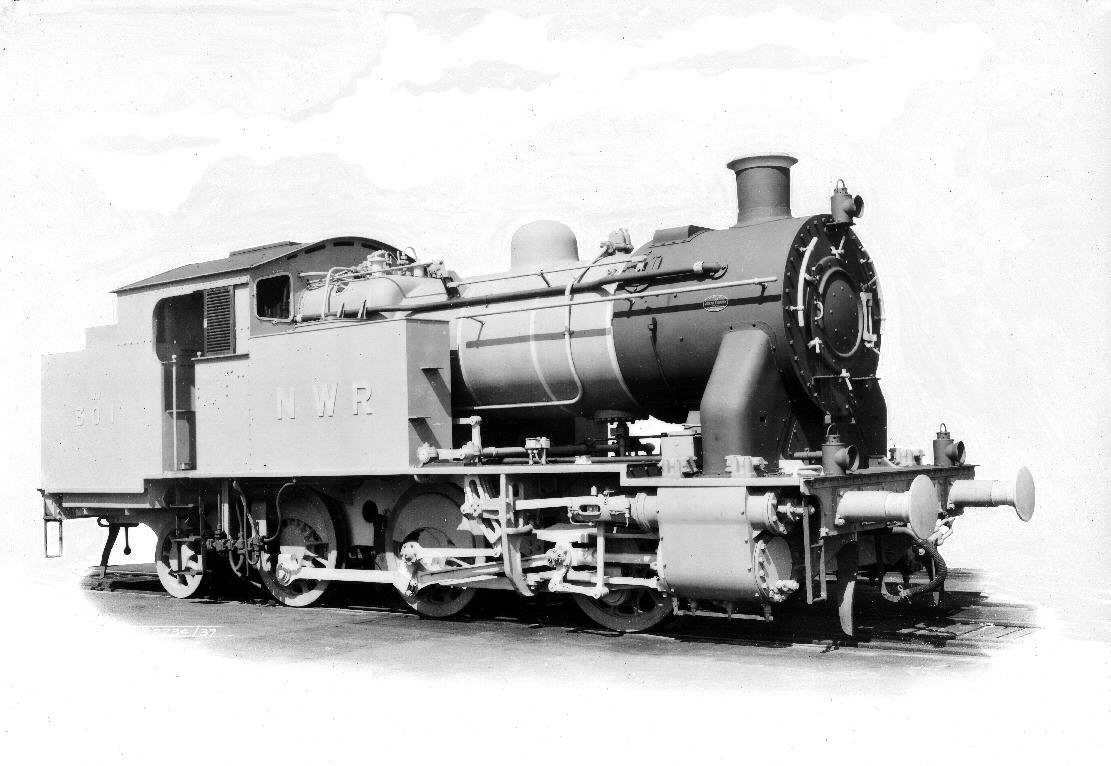 Vulcan Foundry works photo of Indian locomotive class WW tank locomotive, North Western Railway (NWR) no. 301 (three quarter view).